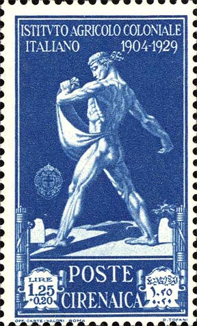 Semi-Postal stamp 1930: Italian Agricultural Institute in Cyrenaica .